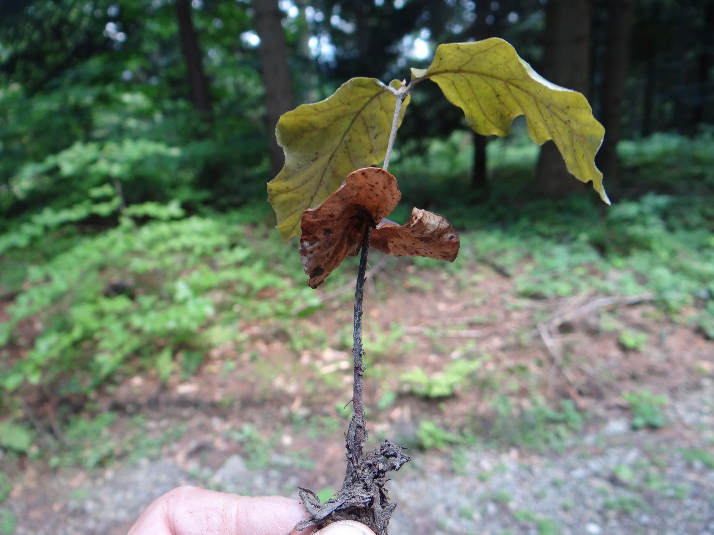 Phytophthora Diseases on Fagus